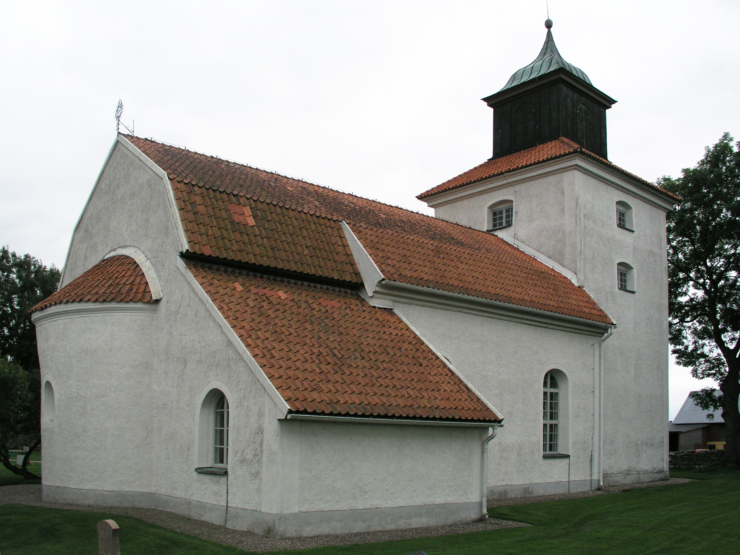 Egby church on the isle of Öland.